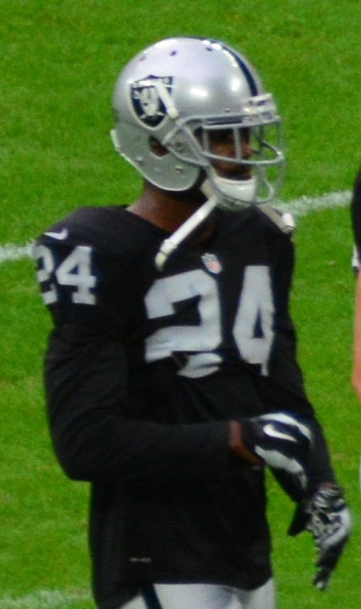 Raiders vs. Dolphins 2014.